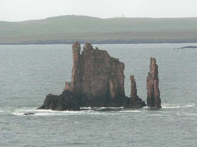 The Drongs This is an amazing rock formation, as seen from Gordi Stack.